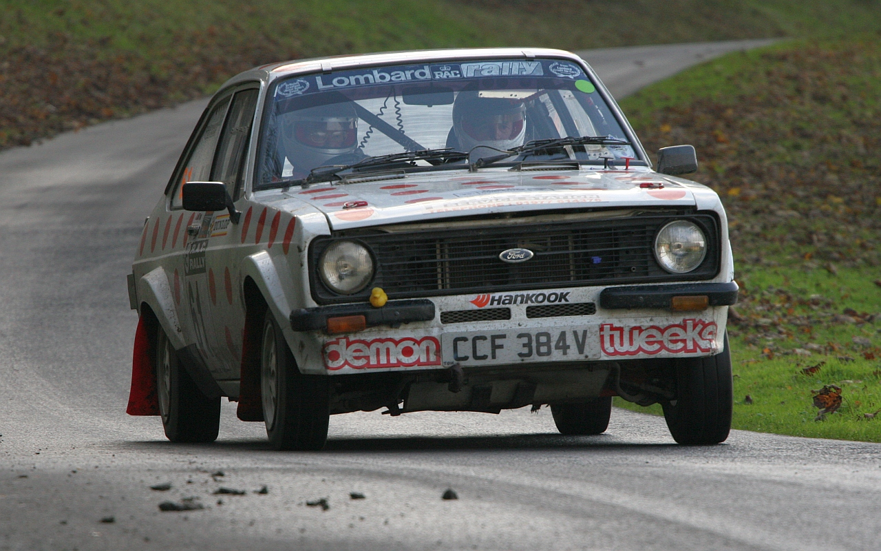 Old Ford Escort Demon Tweeks in RAC Rally 2009.